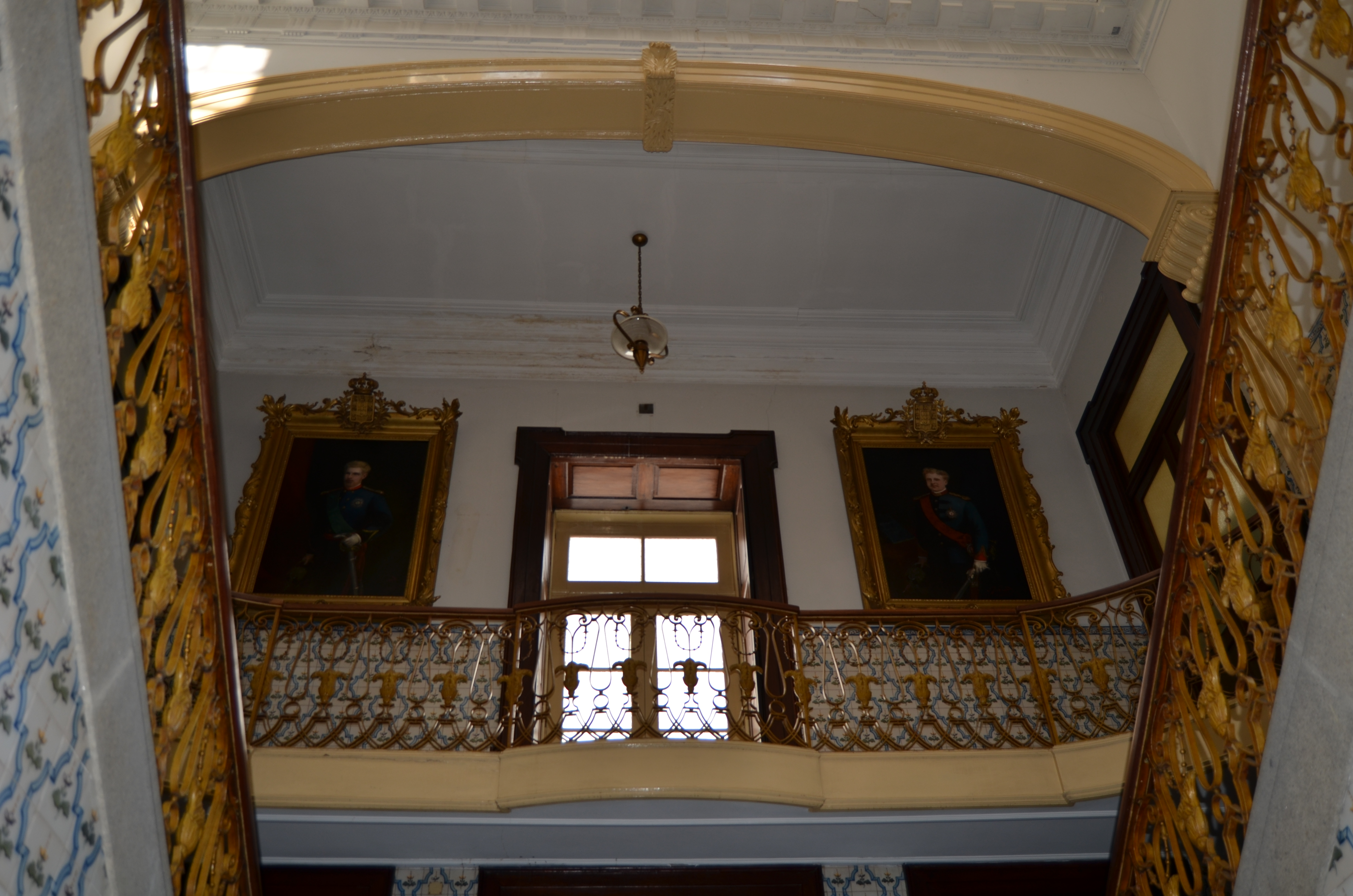 In a time of kings and queens I